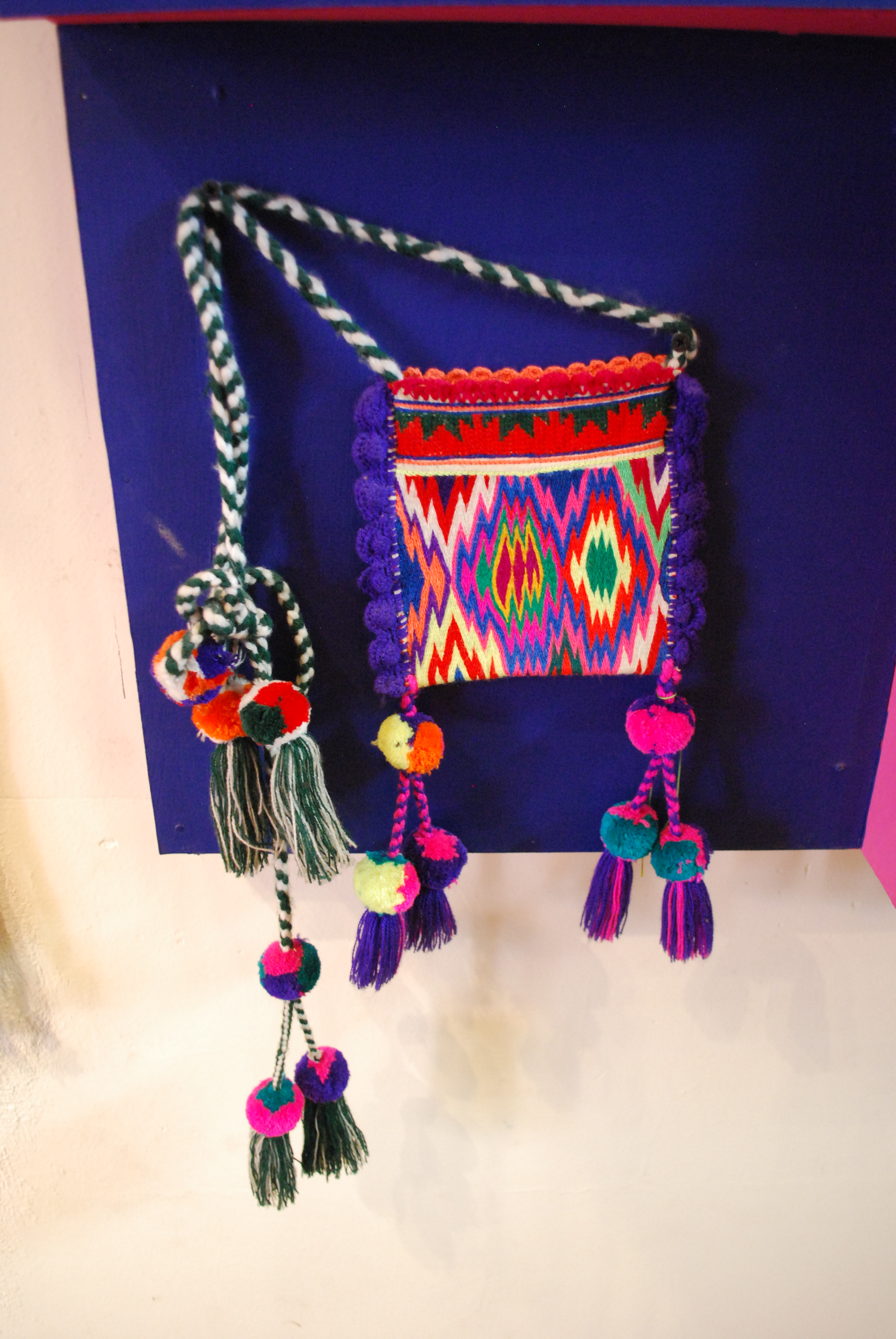 Tepehuano bag hanging in a room dedicated to textiles in the Museo de las Culturas Populares in Victoria de Durango